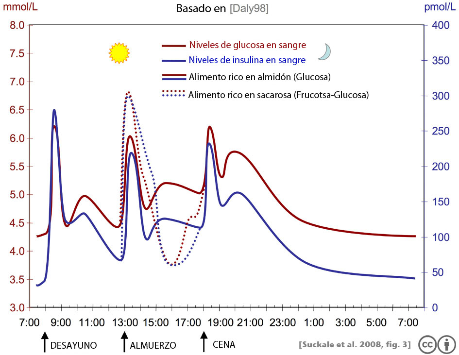 idealized curves of human blood glucose and insulin concentrations during the course of a day containing three meals; in addition, effect of sugar-rich meal is highlighted